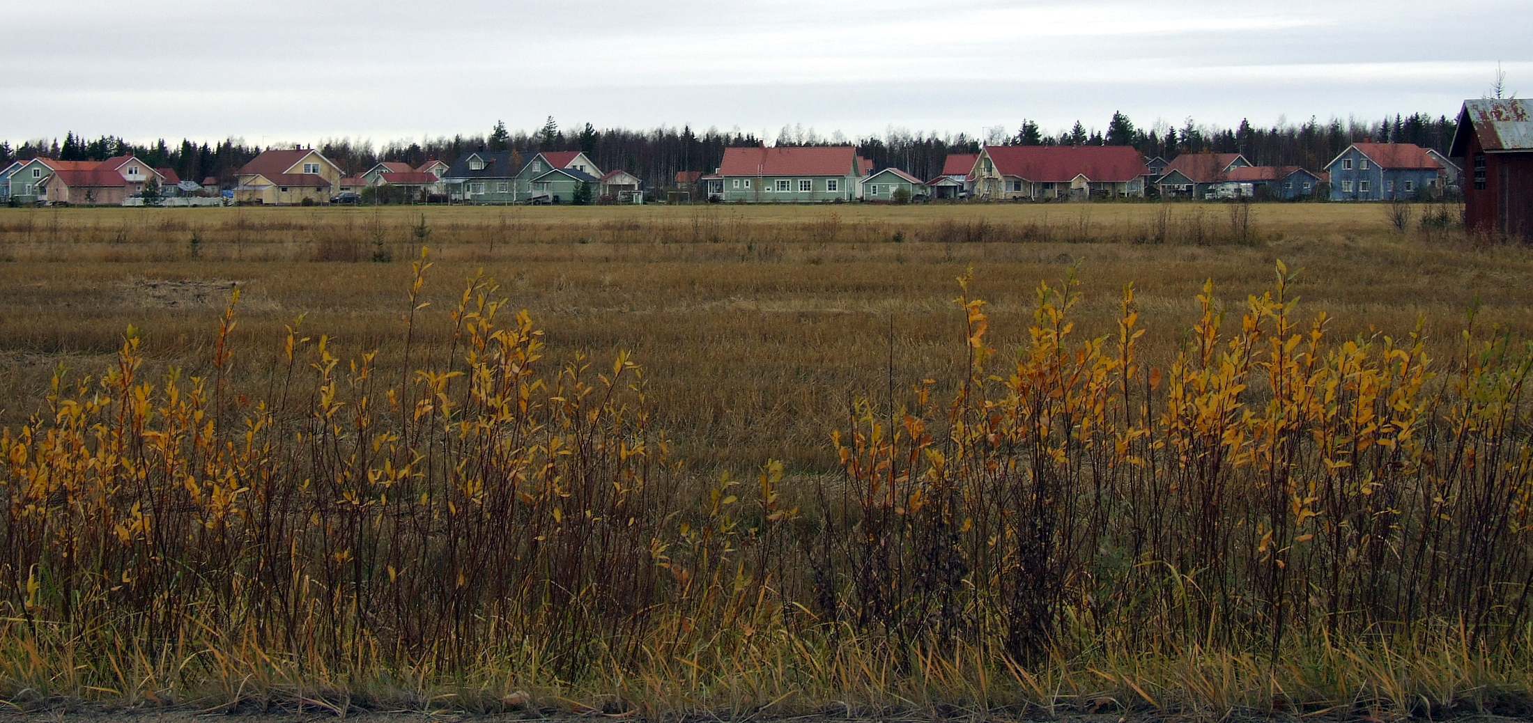 Houses in Vesikari neighbourhood in Liminka, Finland.